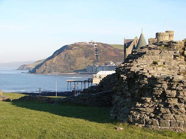 Aberystwyth Castle, Aberystwyth, Ceredigion/Sir Ceredigion, Wales. Looking towards the Royal Pier and Constitution Hill from the castle grounds. The old college building is also partially visible.